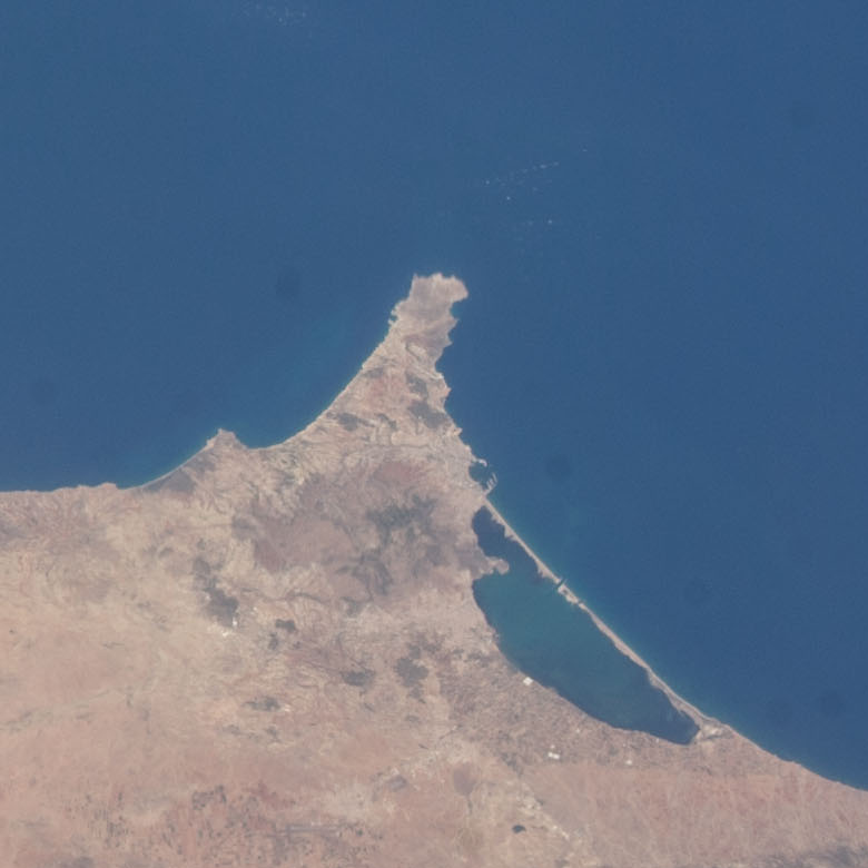 One of the Expedition 36 crew members aboard the International Space Station on Aug. 23 exposed this image of the Strait of Gibraltar, where Europe and Africa meet and where the Atlantic Ocean waters flow through the strait into the Mediterranean Sea. A popular photographic target of astronauts has always been the Strait of Gibraltar, easily spotted at left center in this wide photograph, shot from the International Space Station. Spain is to the north (top) and Morocco to the south. The strait is 36 miles (58 kilometers) long and slims down to 8 miles (13 kilometers) at it's most narrow point. The British colony of Gibraltar is north of the strait.